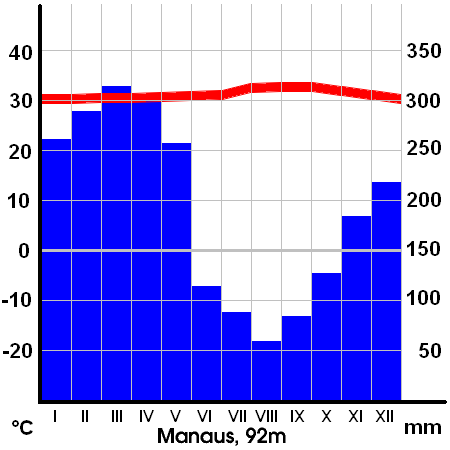 Rainfall and average max. temperature for Manaus, Brazil. °Celsisus and millimeters. Software: Data